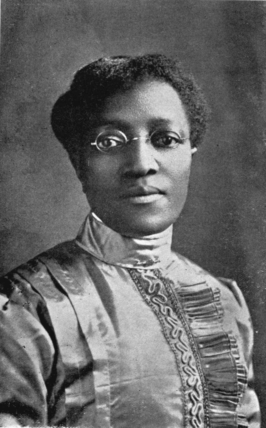 Portrait of Clara Ann Howard, American educator and Baptist missionary